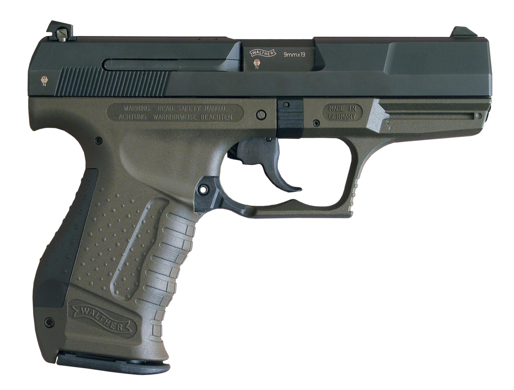 Walther P99 chambered for 9x19mm round, First variation with green polymer frame. Note the closed front accessory rail, 'ski-hump' trigger guard and short magazine release that were changed in the later generations of the P99.